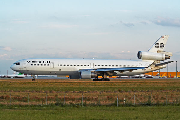 An Aircraft (McDonnell Douglas MD-11) from World Airways on the airfield of the airport Leipzig/Halle (Germany)